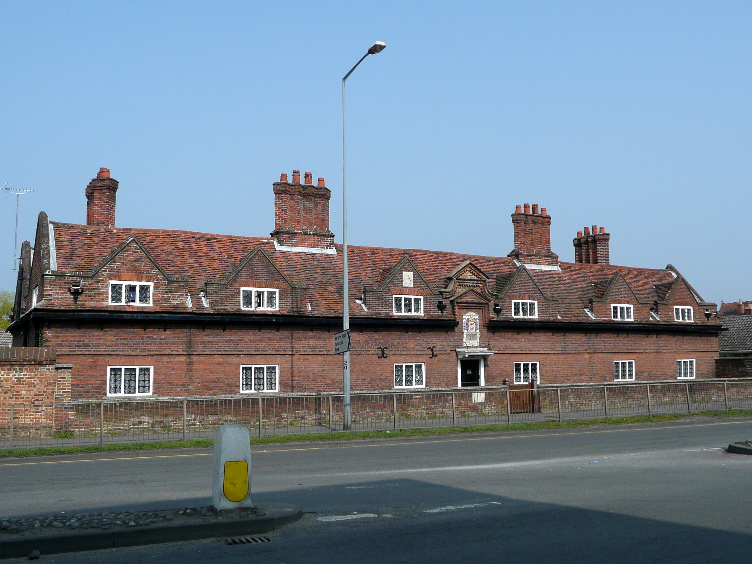 Bridge Street, Maidenhead. Founded by James Smyth, a salter, in 1659. James Smith (1587-1667) (alias James Smyth) of Hammersmith, Middlesex, was an Alderman of the City of London a member of the Worshipful Company of Salters and a Governor of Christ's Hospital in London. His monument survives in St Paul's Church, Hammersmith. He was the grandfather of Sir John Smith, 1st Baronet, of Isleworth